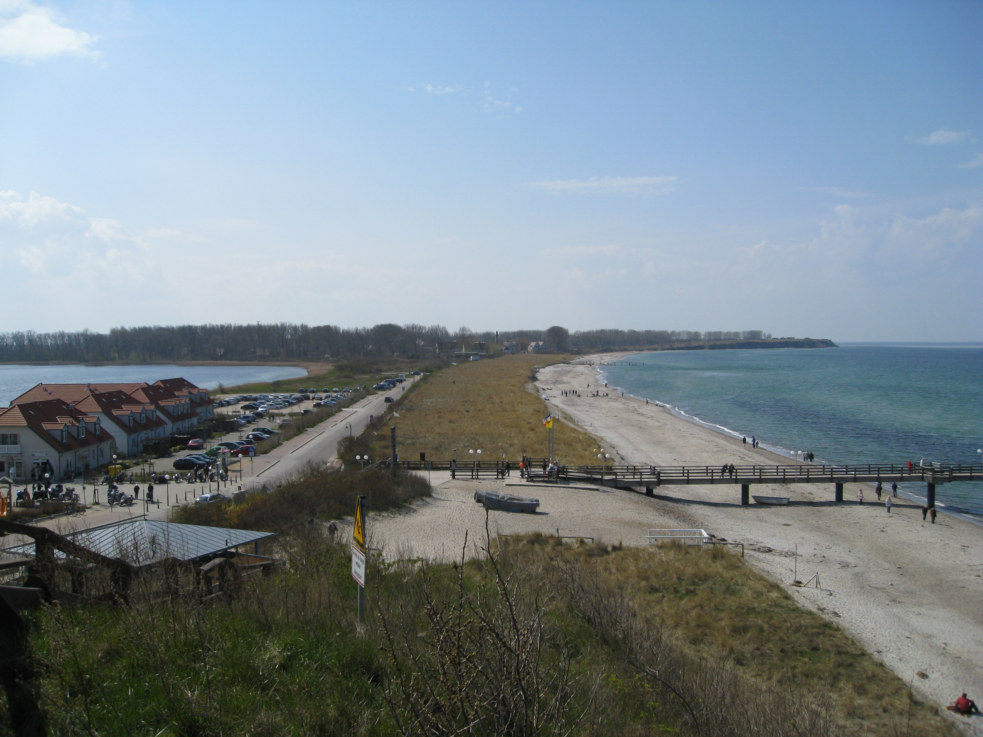 View to the town of Rerik at the foot of Wustrow Peninsula on the German Baltic Sea coast. The peninsula was mined during Nazi times and was a recreation area during GDR times. A lot of hotels was build by the FDGB holiday service. It has few bus connections from Rostock, Bad Doberan and Wismar. It is located in the European Green Belt.